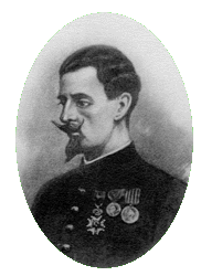 Picture of Jean Vilain